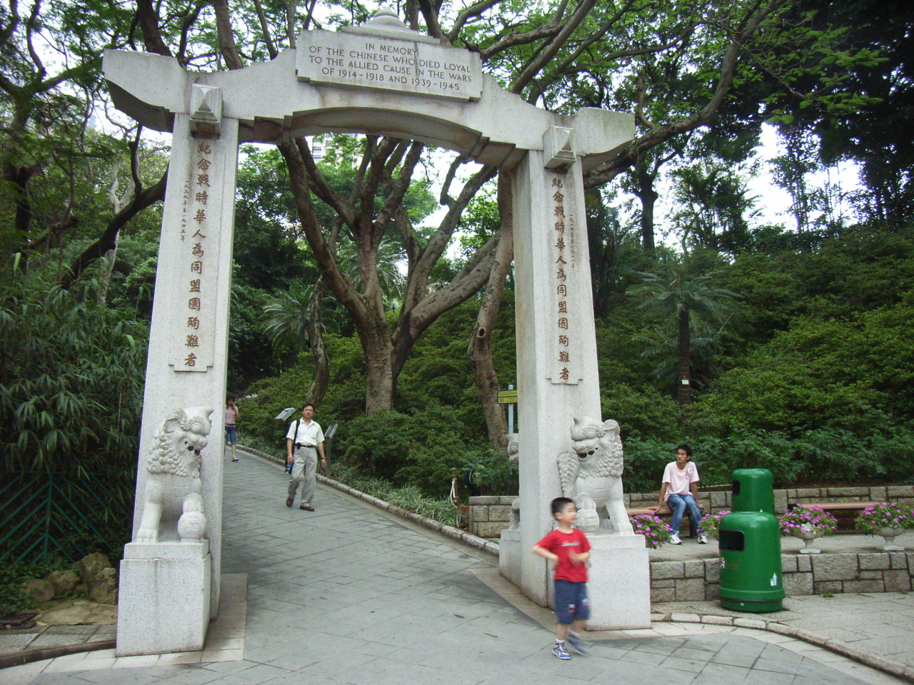 The Hong Kong Zoological and Botanical Gardens 香港動植物公園 (This memorial arch was erected in 1928 in memory of the Chinese who lost their lives during their service with the then British Government in the First world war. 香港動植物公園 Hong Kong Zoological and Botanical Gardens NBG626